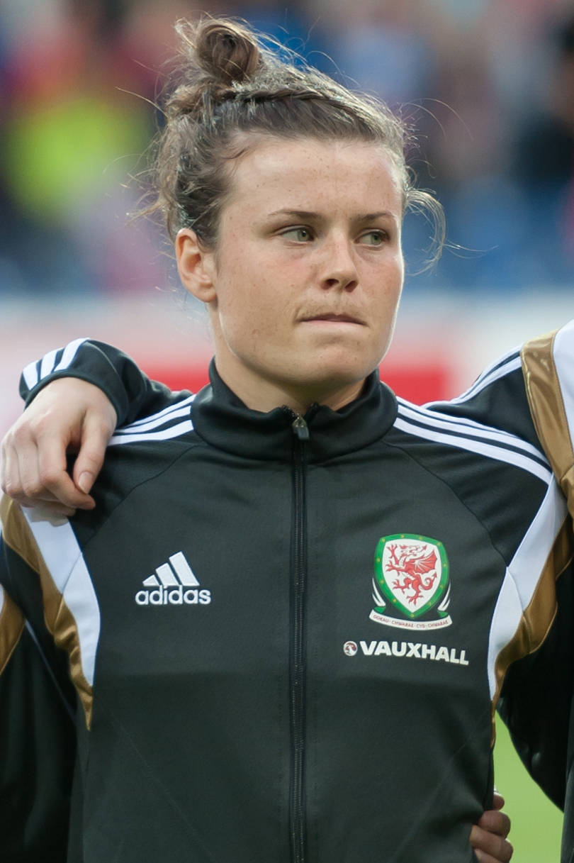 Women's Euro Qualification Austria vs. Wales, 2015-09-22, St. Pölten, Lower Austria